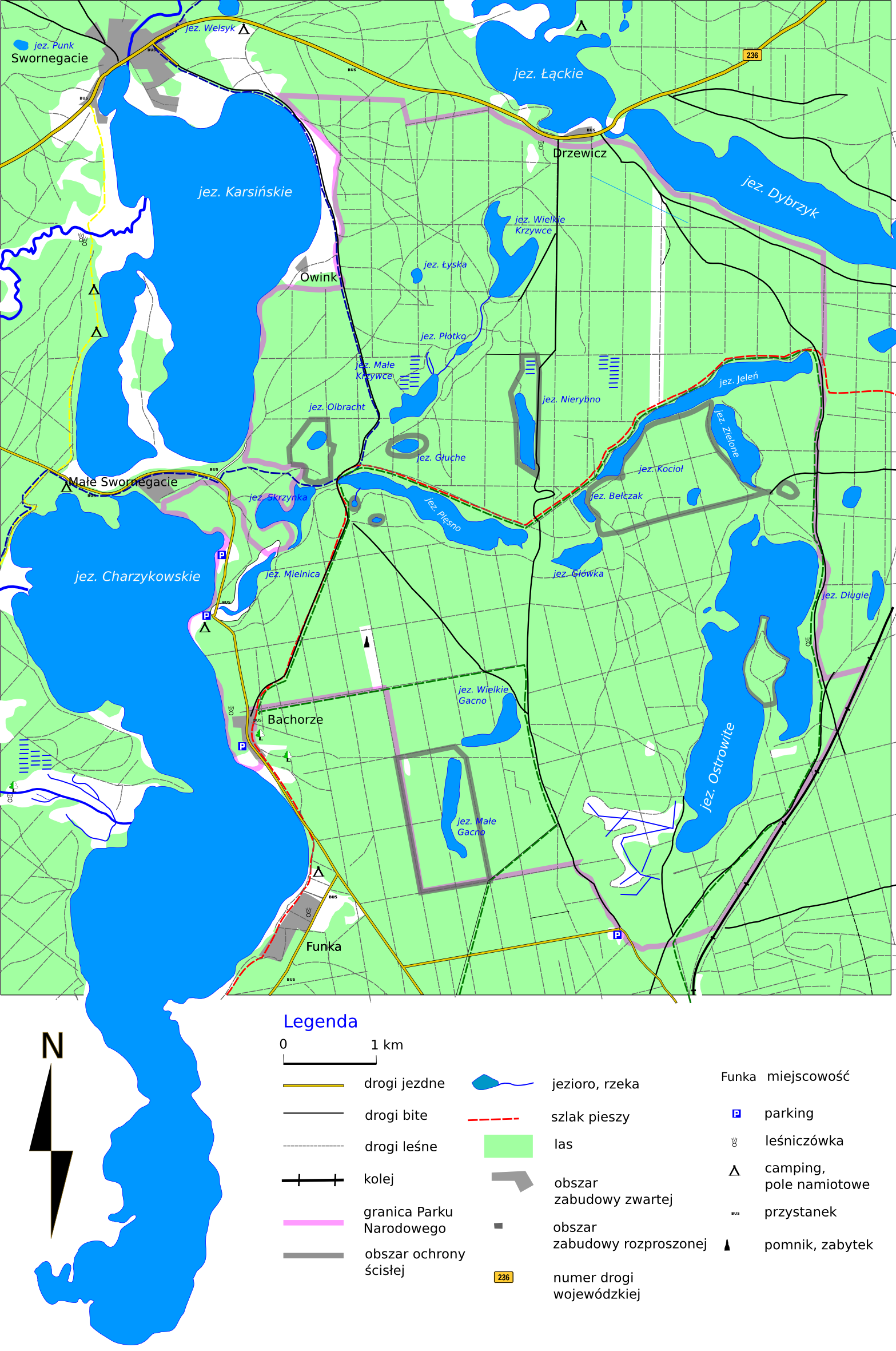 Tucholskie Forest National Park